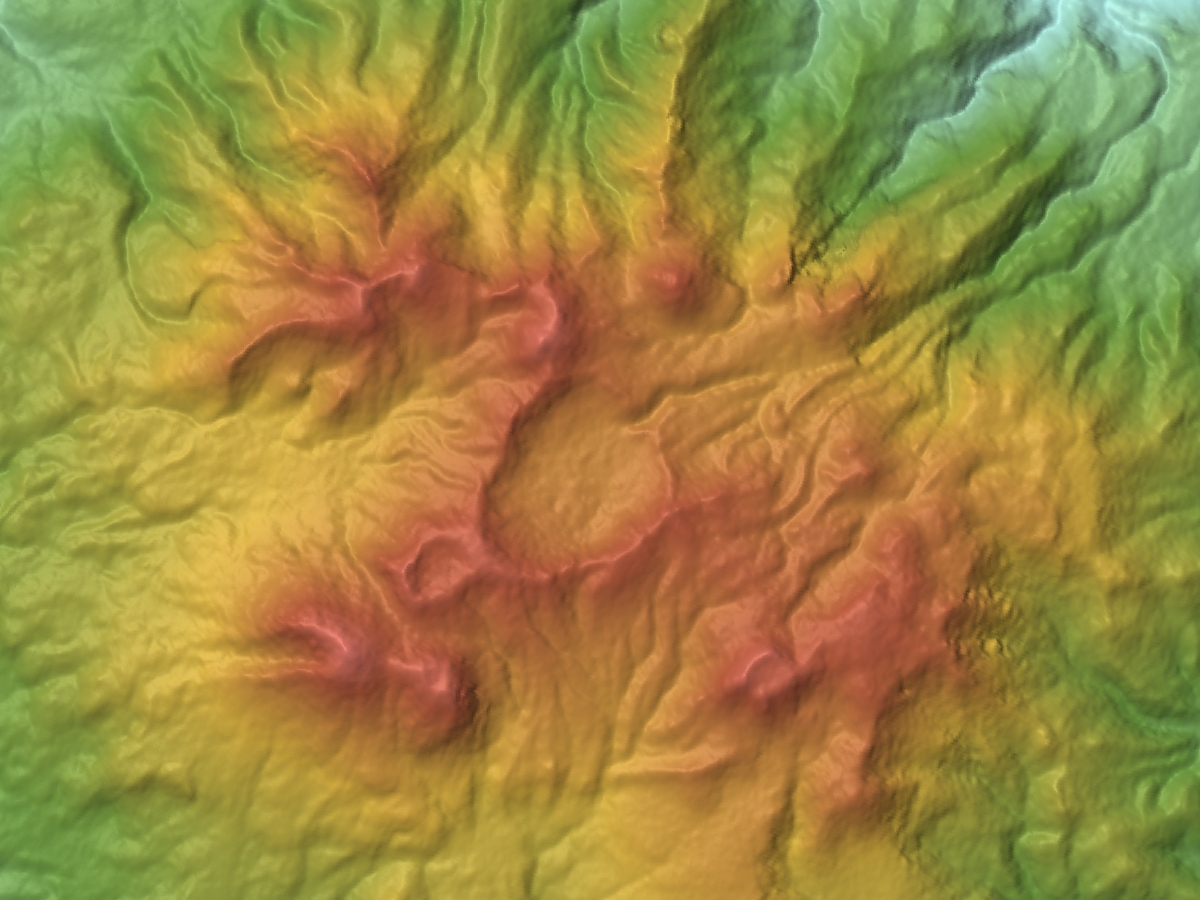 Taisetsu Volcano Group in Hokkaido, Japan. Taisetsu is also written as Daisetsu.